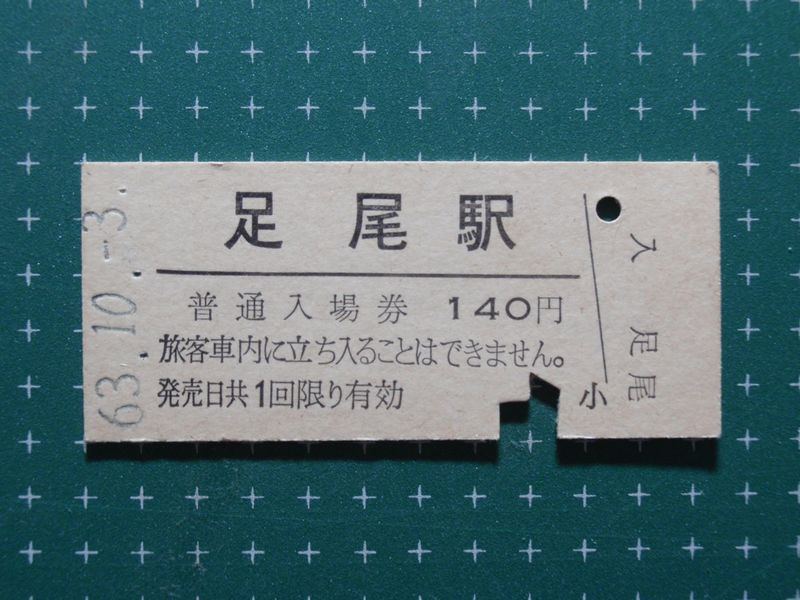 Platform ticket Ashio Sta.